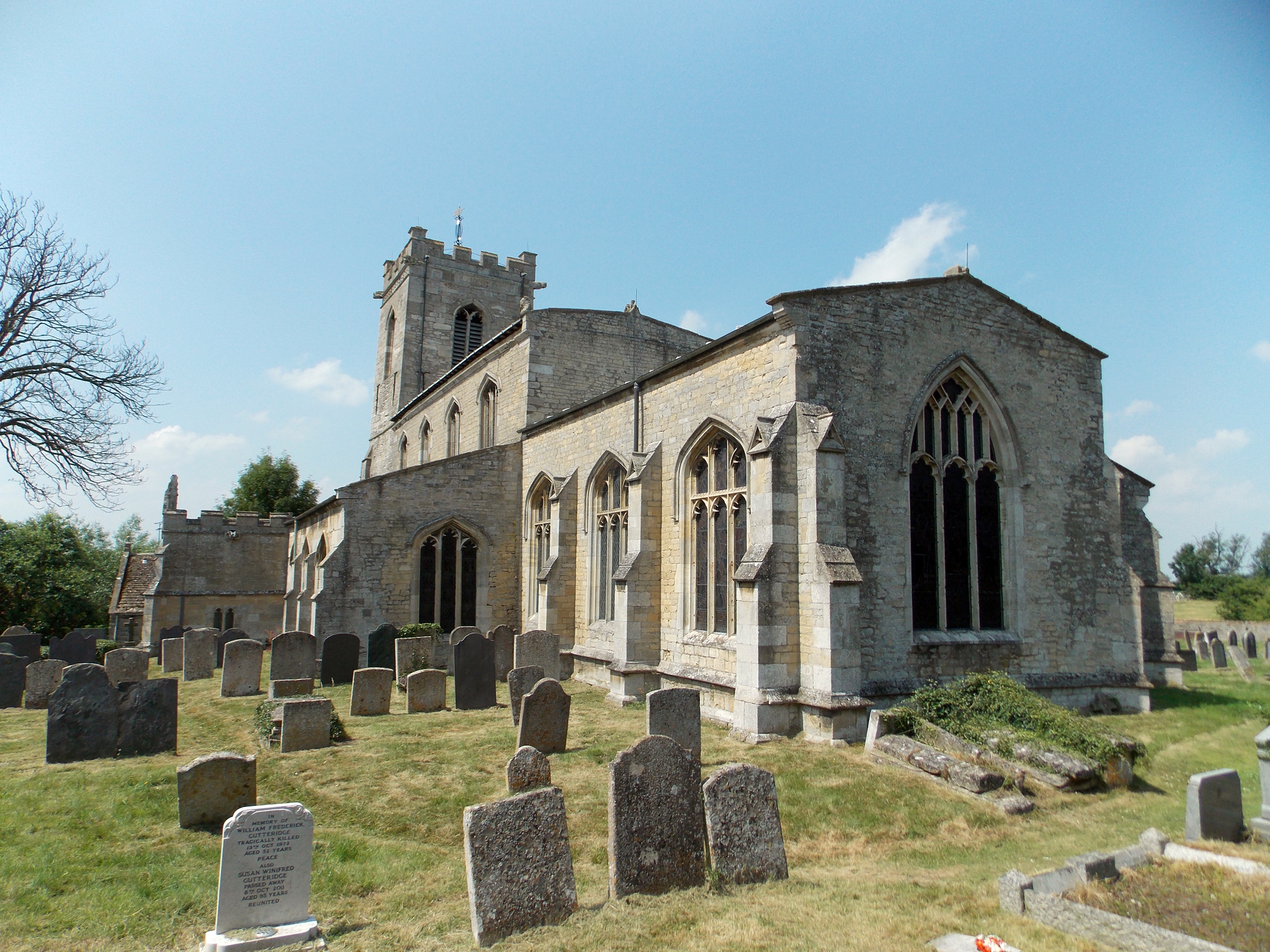 Corby Glen St John's - view from the south-east with graveyard